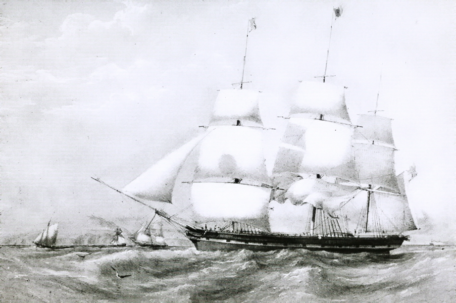 File name = caption and page # The England 40b Quote: page 41 After the Black Ball Line passed into the hands of Captain Charles H. Marshall in 1836, the Columbus, Oxford, Cambridge, New York, England, Yorkshire, Fidelia, Isaac Wright, Isaac Webb, the third Manhattan, Montezuma, Alexander Marshall, Great Western, and Harvest Queen were gradually added to the fleet.